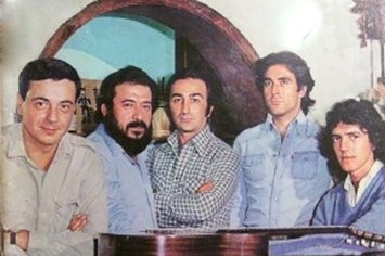 Los Huanca Hua. Folk group, Argentina. 1979 members from left: Emilio Martínez, Pedro Farías Gómez, Raúl Tomás, Juan Juncales, José María Iriondo.